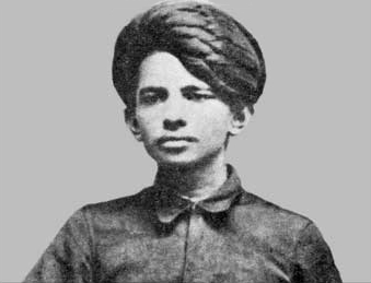 Gandhi as a teenager, in 1886.